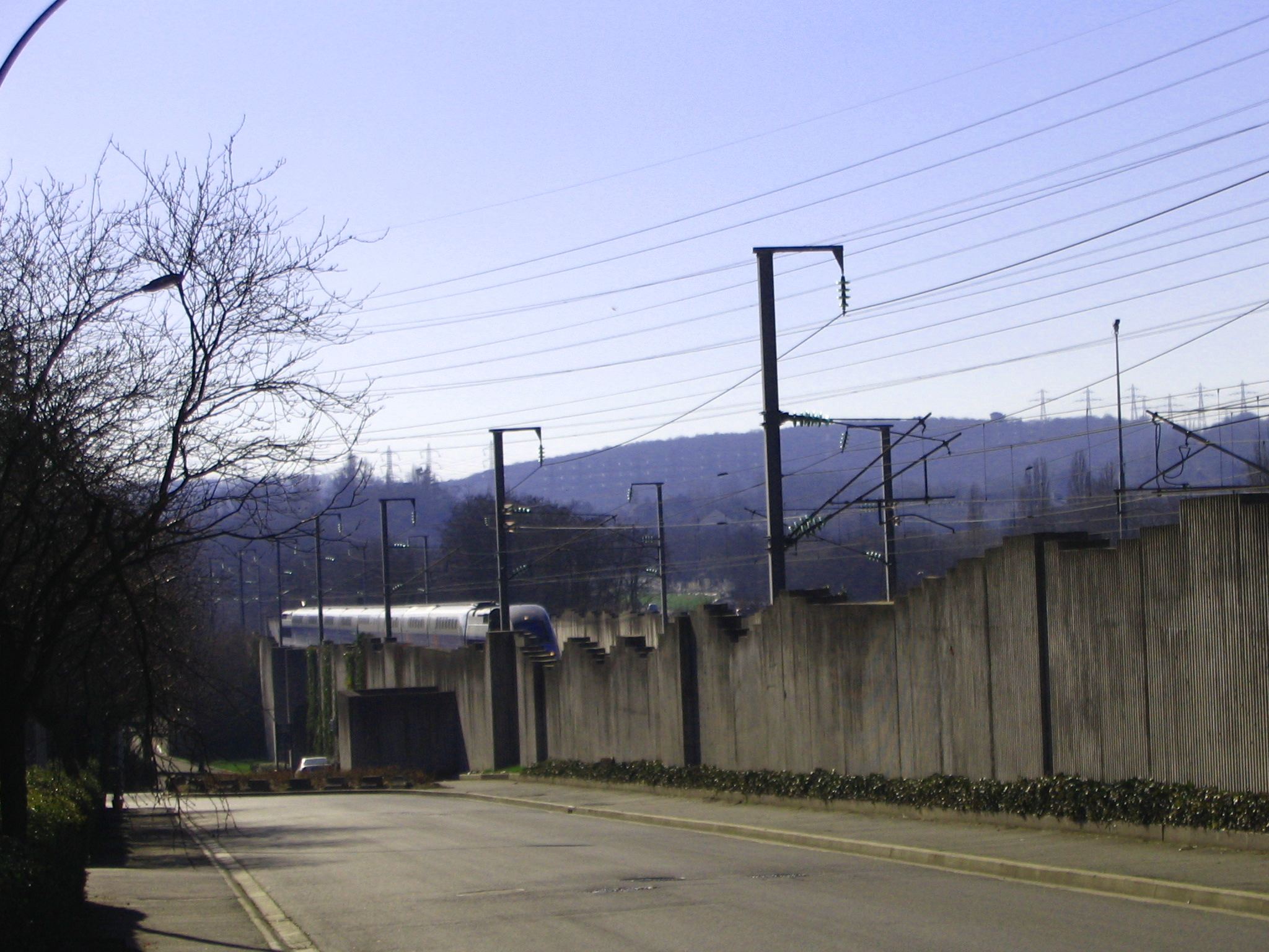 TGV Duplex having just left Paris Montparnasse station and running on LGV Atlantique in Palaiseau, Essonne, France. Behind the line, motorway A10.